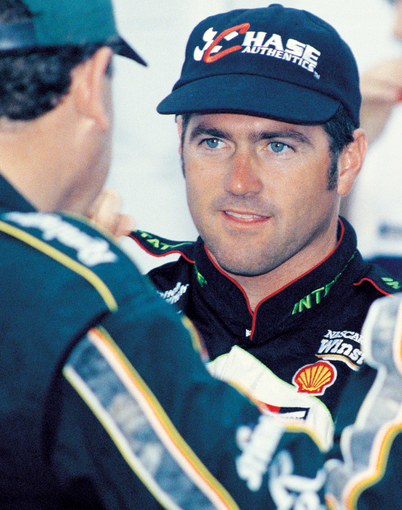 NASCAR driver Bobby Labonte at Richmond International Raceway in 1998.